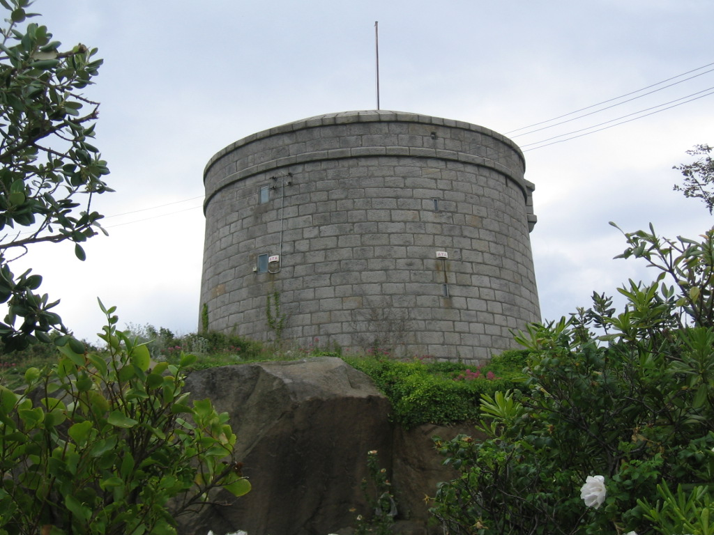 James Joyce Tower and Museum1